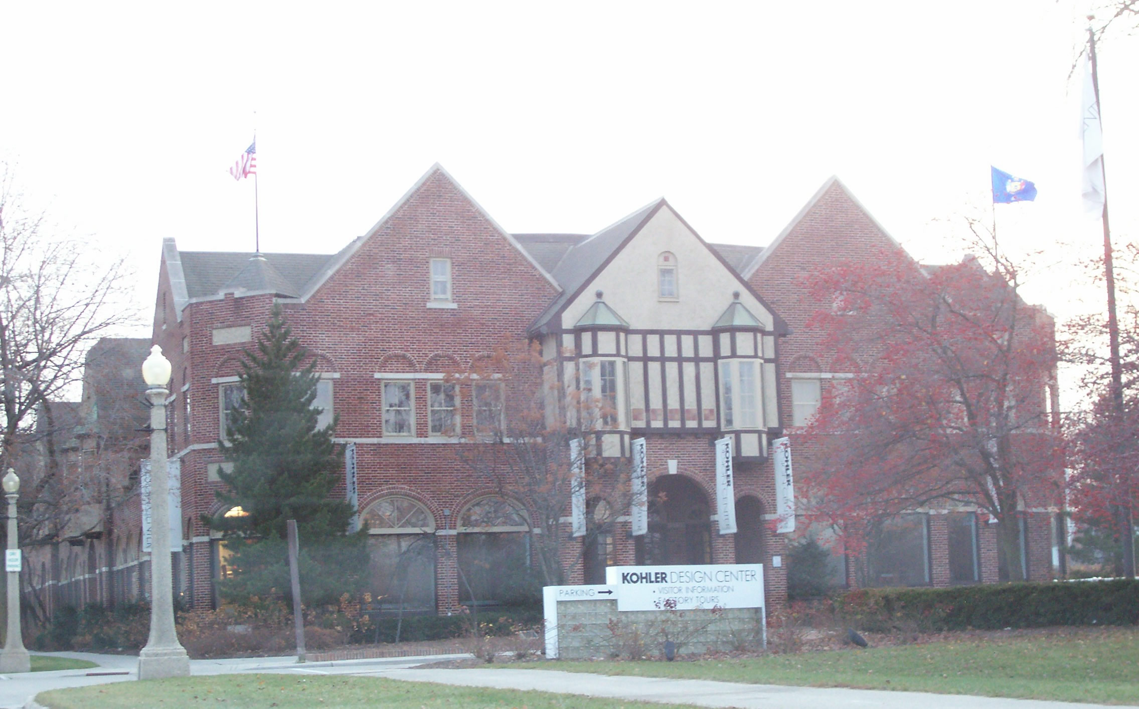 The Kohler Design Center in Kohler, Wisconsin, USA. The center highlights products made by Kohler Company.